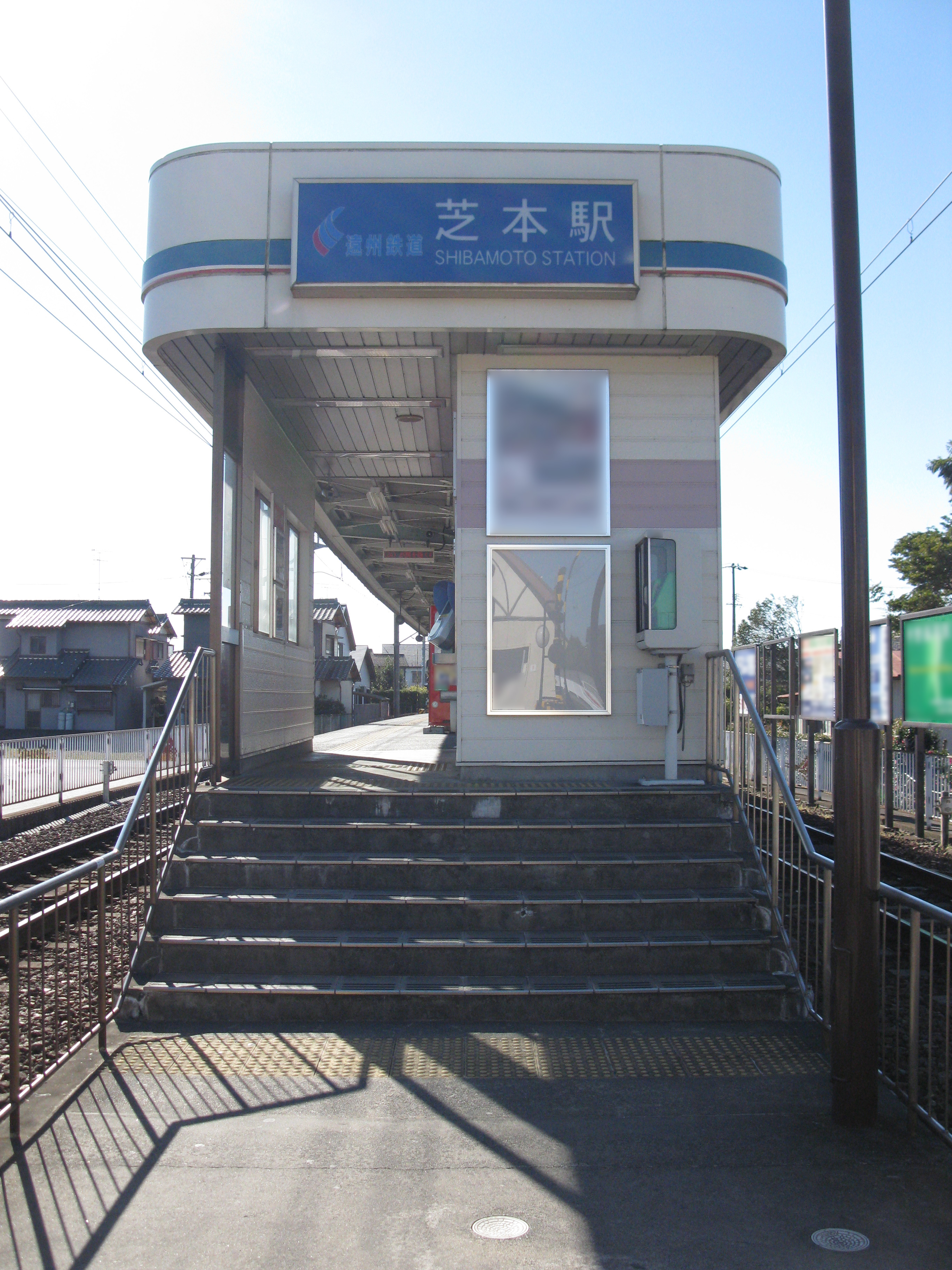 Enshū-Shibamoto Station entrance (Enshū Railway Line)